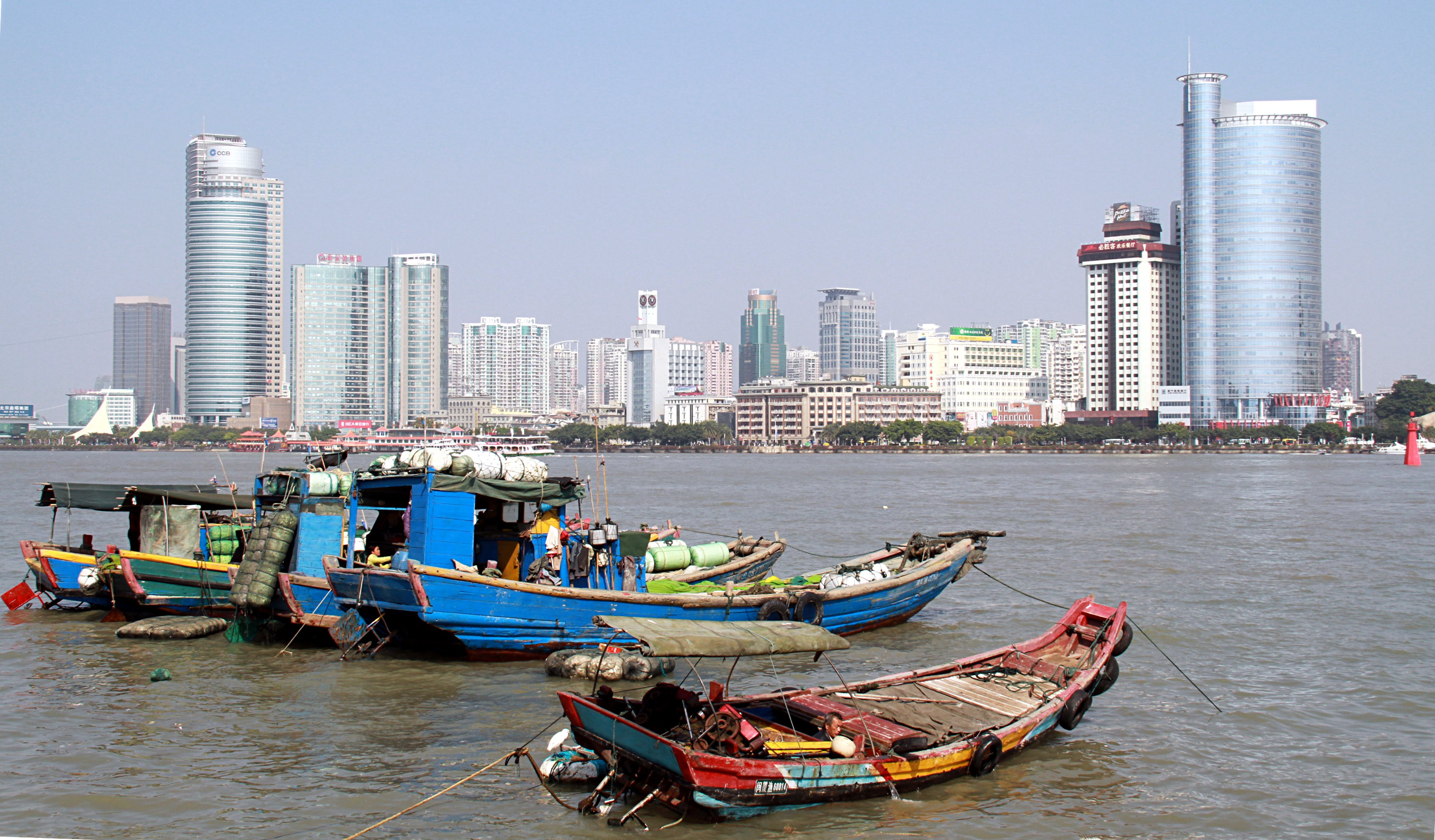 Photograph of the skyline of Xiamen seen from the beach of Gulangyu Island, Xiamen, Fujian Province, China